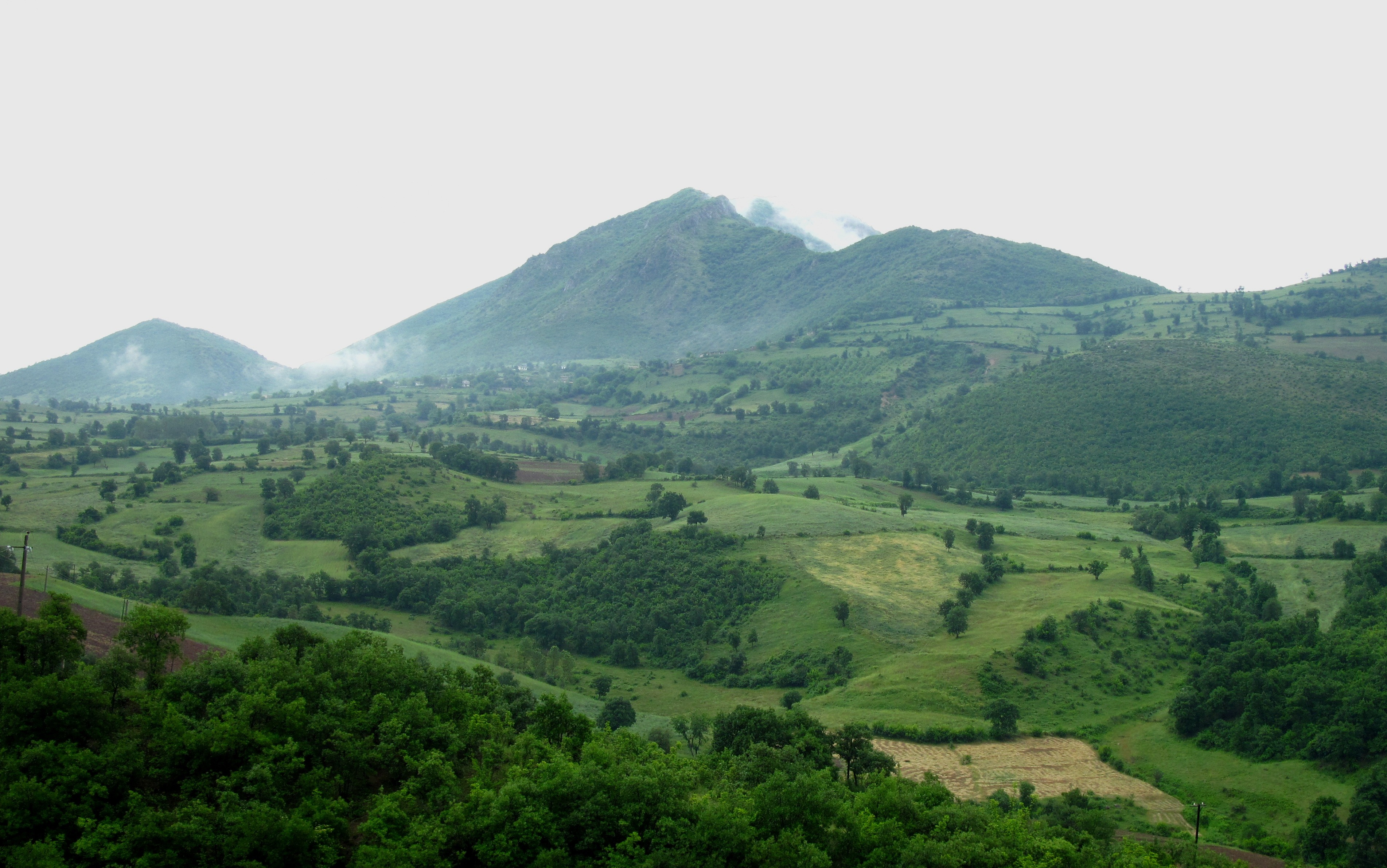 This photo was taken in Minjavan District of Khoda Afarin County in Arasbaran region.